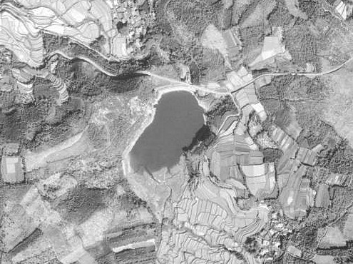 Okiribata Dam.